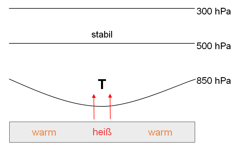 Vertical cross-section of a thermal low